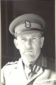 Brigadier William Bridgeford, 1941, while serving as quartermaster general to I Corps, Australian Army.